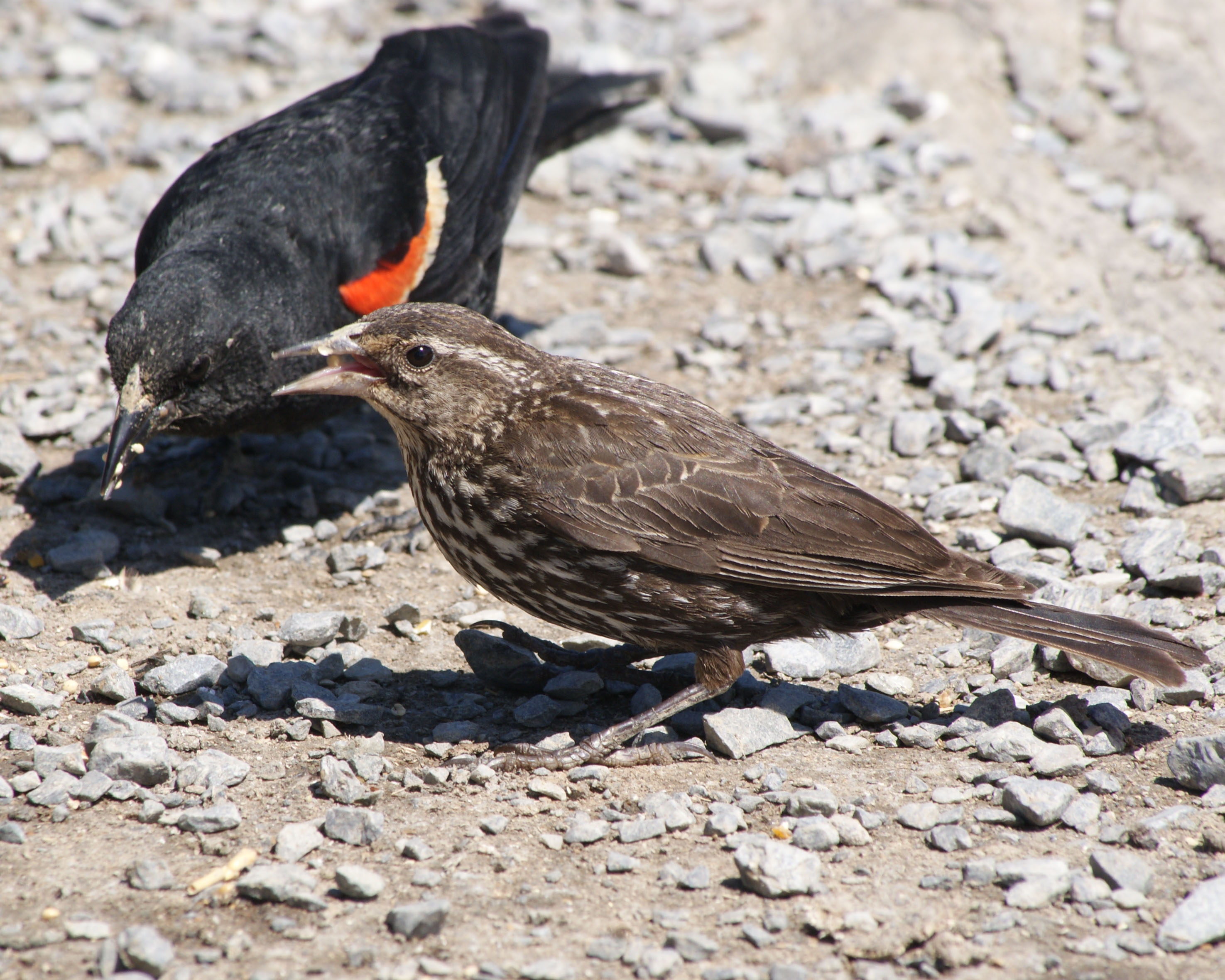 A Red-winged Blackbirds in George C. Reifel Migratory Bird Sanctuary, British Columbia, Canada. The female is in the foreground and the male is in the background.